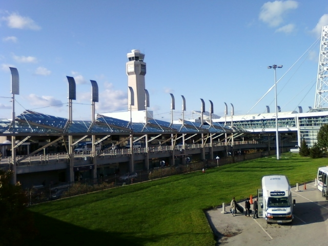 A view of the terminal at Cleveland Hopkins International Airport. The upper level is ticketing and the lower level is baggage.